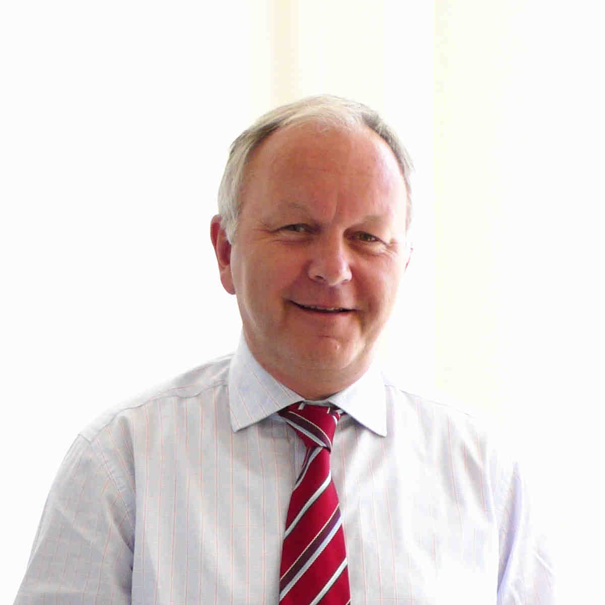 Joachim Thiery